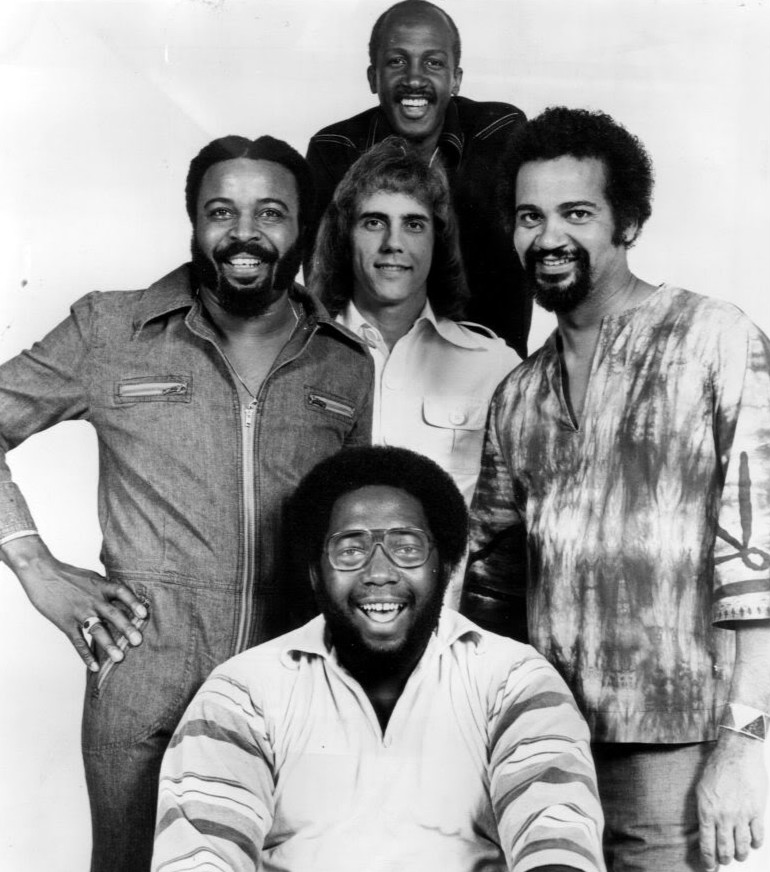 Photo of the jazz group The Crusaders.